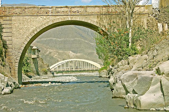 View of the popular bridges in Akhty — Republic of Dagestan of southwestern Russia. A stone arch bridge (foreground), and steel bridge (rear).